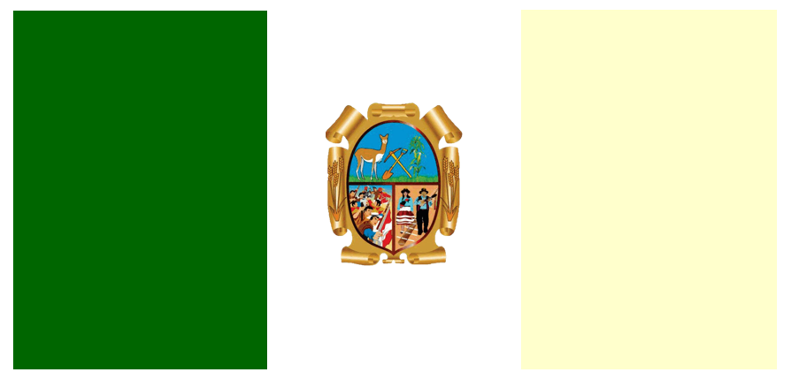 la bandera de hualla es tricolor